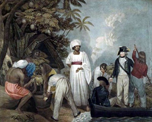 Transplanting of the bread-fruit trees from Otaheite. Painted and engraved by T Gosse. London, T Gosse 1796.